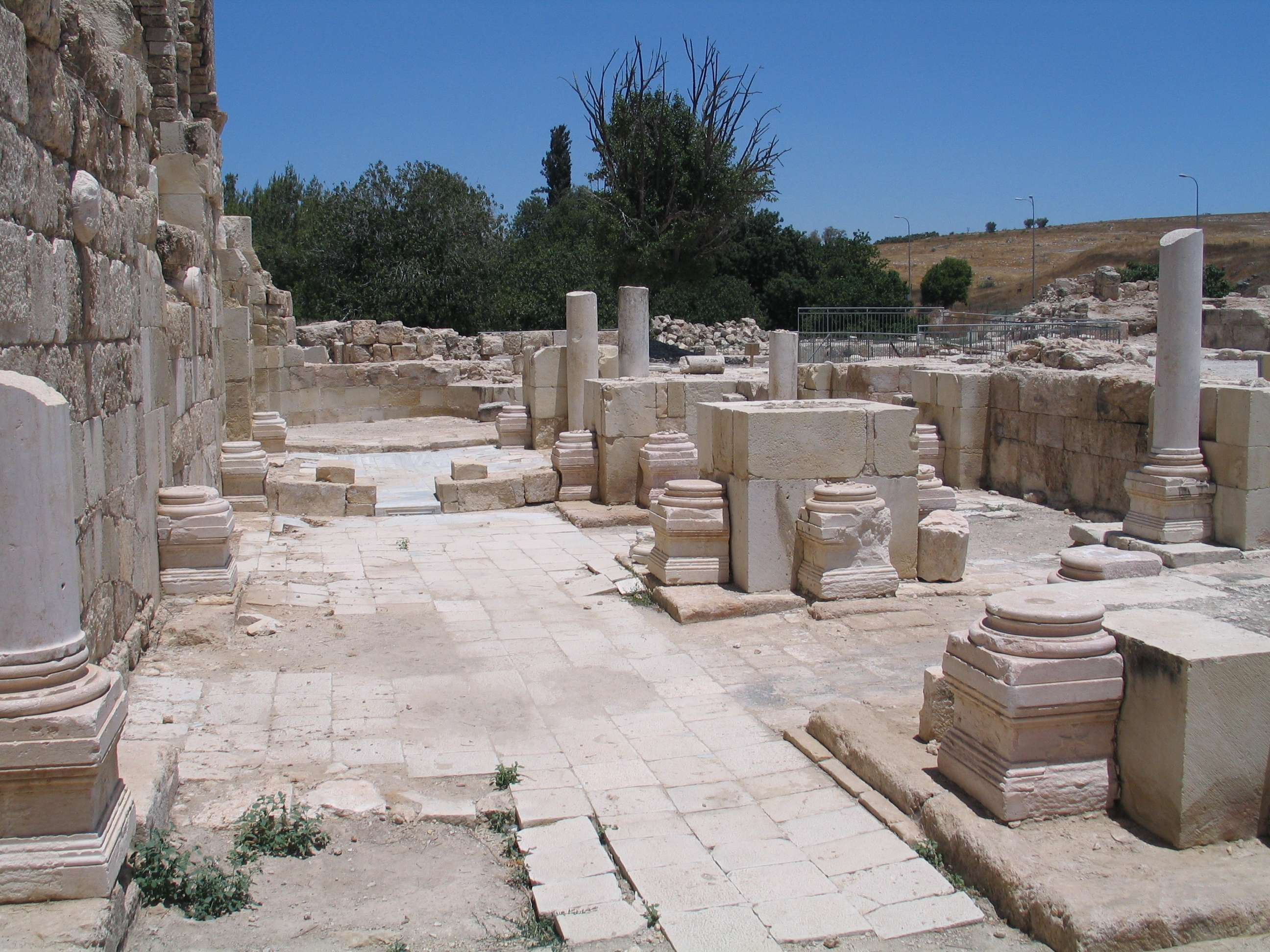 Crusader church, Beyt Govrin, Israel.